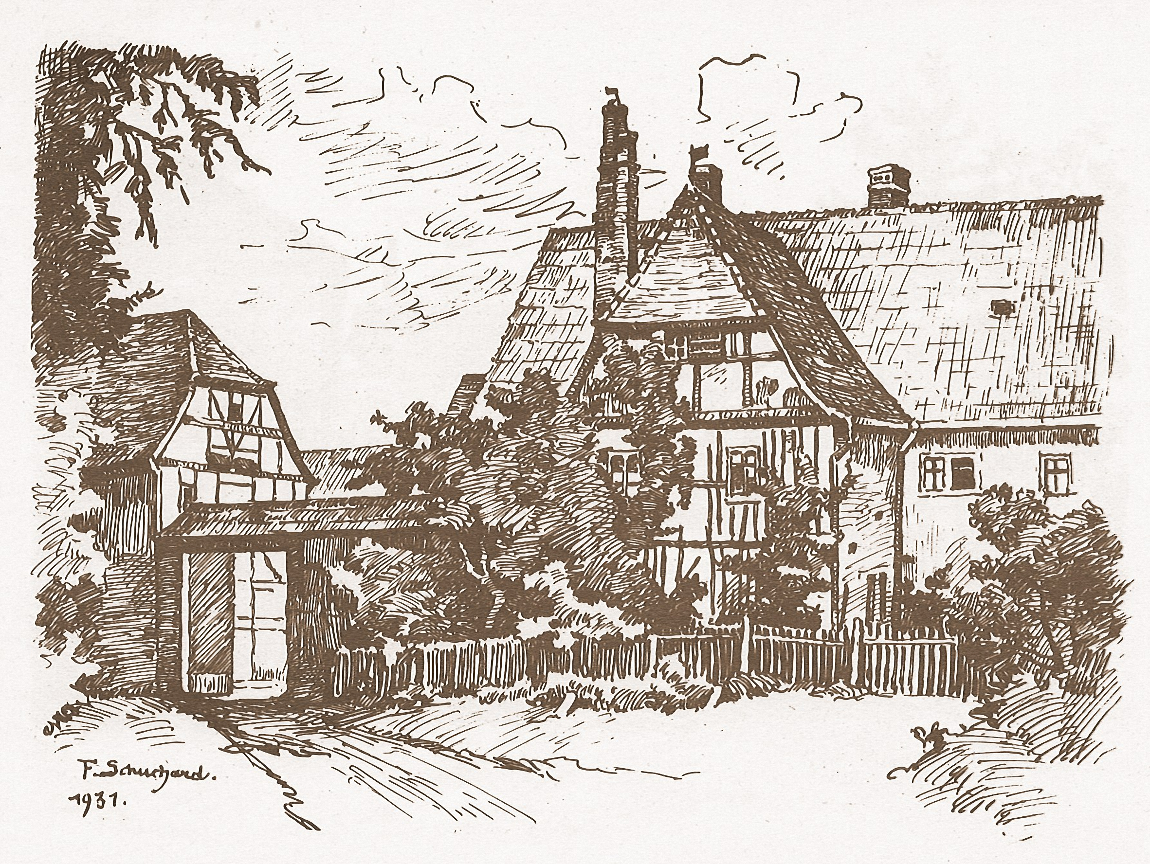 The German painter Felix Schuchard was born in 1865 at Trenkelhof near Eisenach, Thuringia. In 1931 he made this pen and ink drawing. It shows the entrance to his birthhouse.